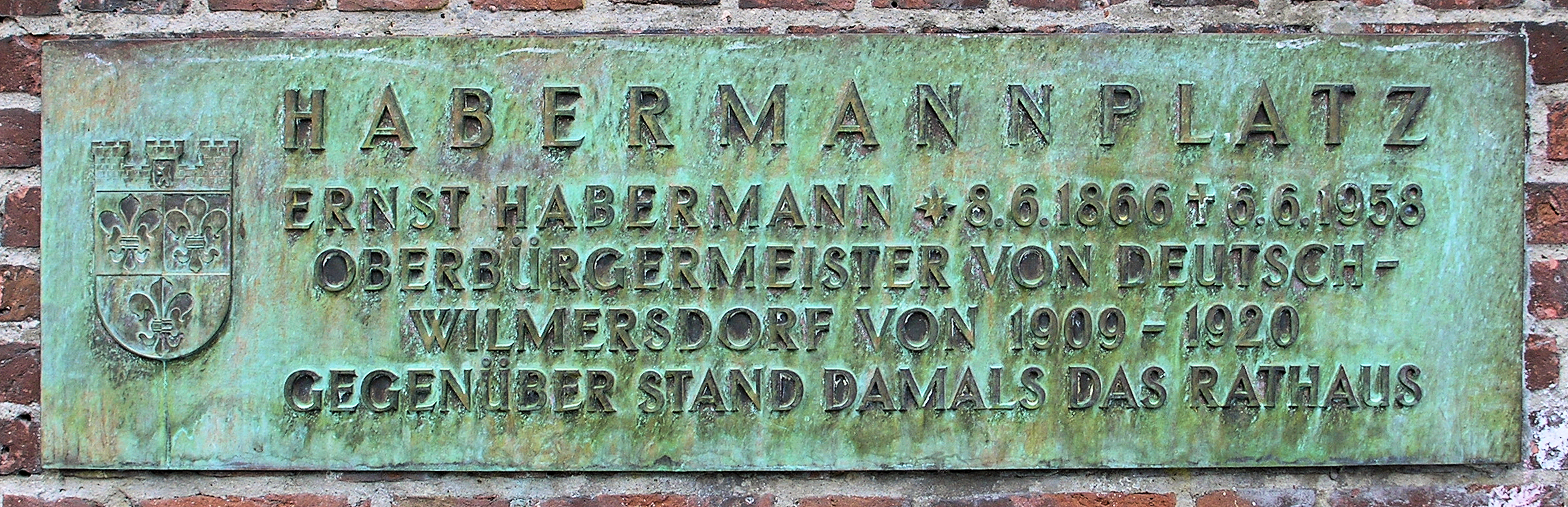 Memorial plaque, Ernst Habermann, Gasteiner Straße 15, Berlin-Wilmersdorf, Germany